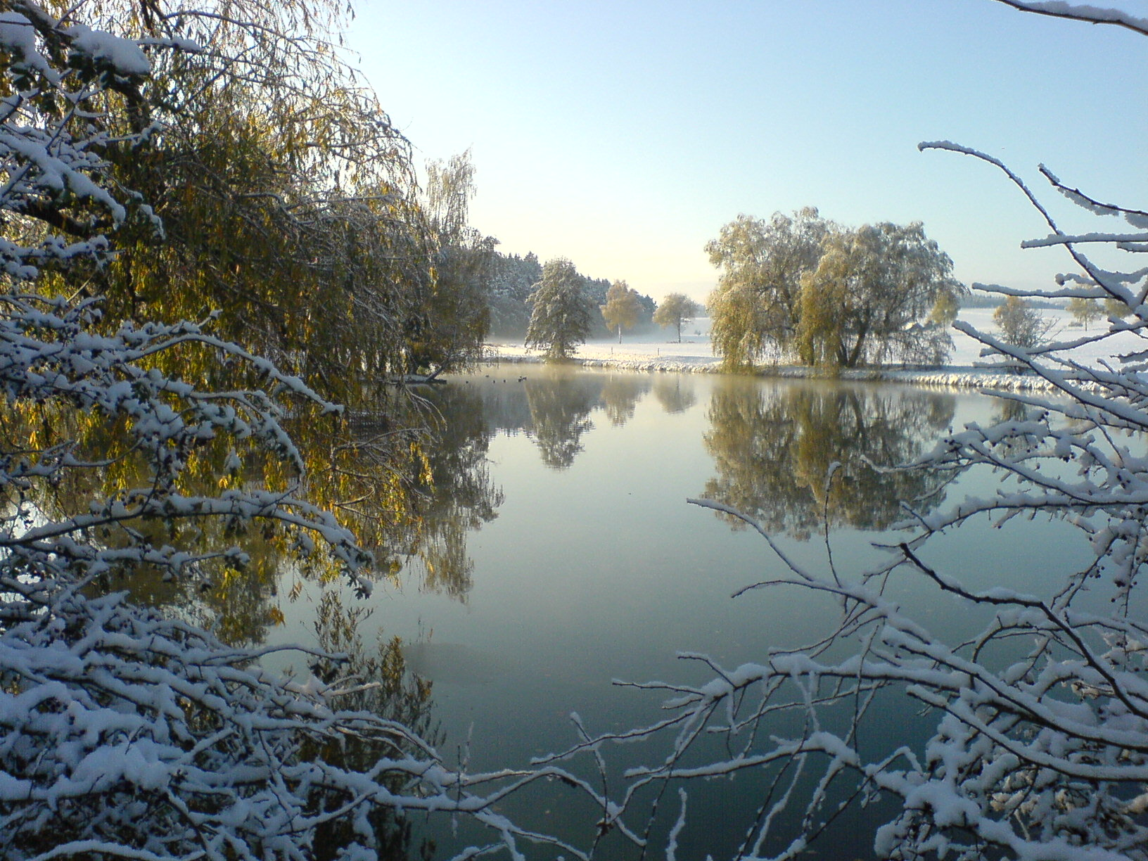 Snow near a lake in Bavaria, Germany